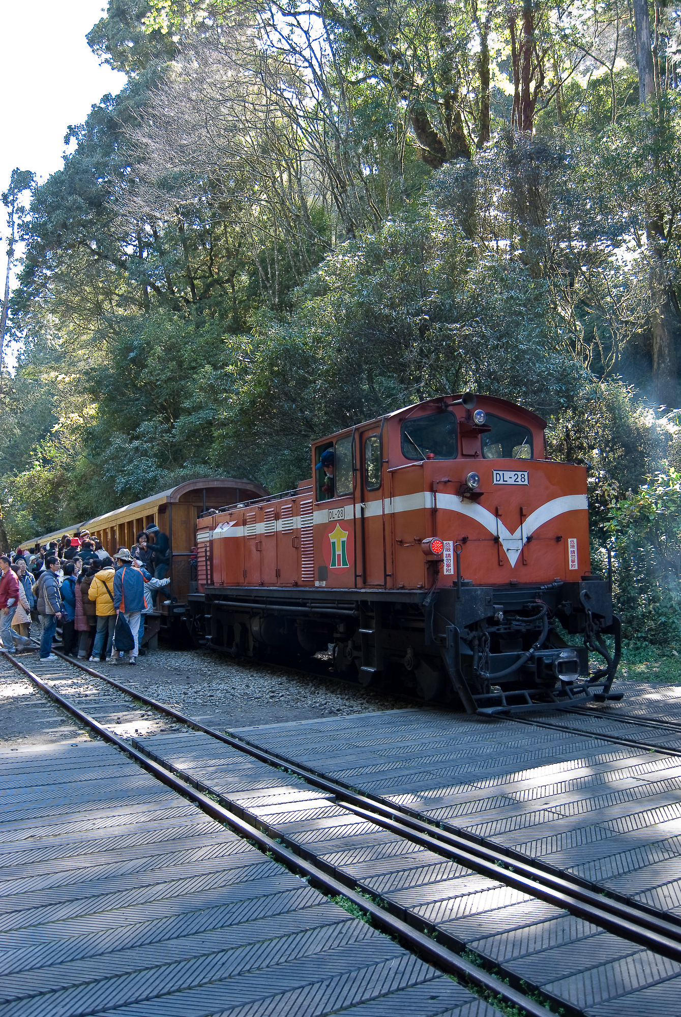 Alishan Forest Railway Diesel locomotive DL28 @ Sacred Tree Station